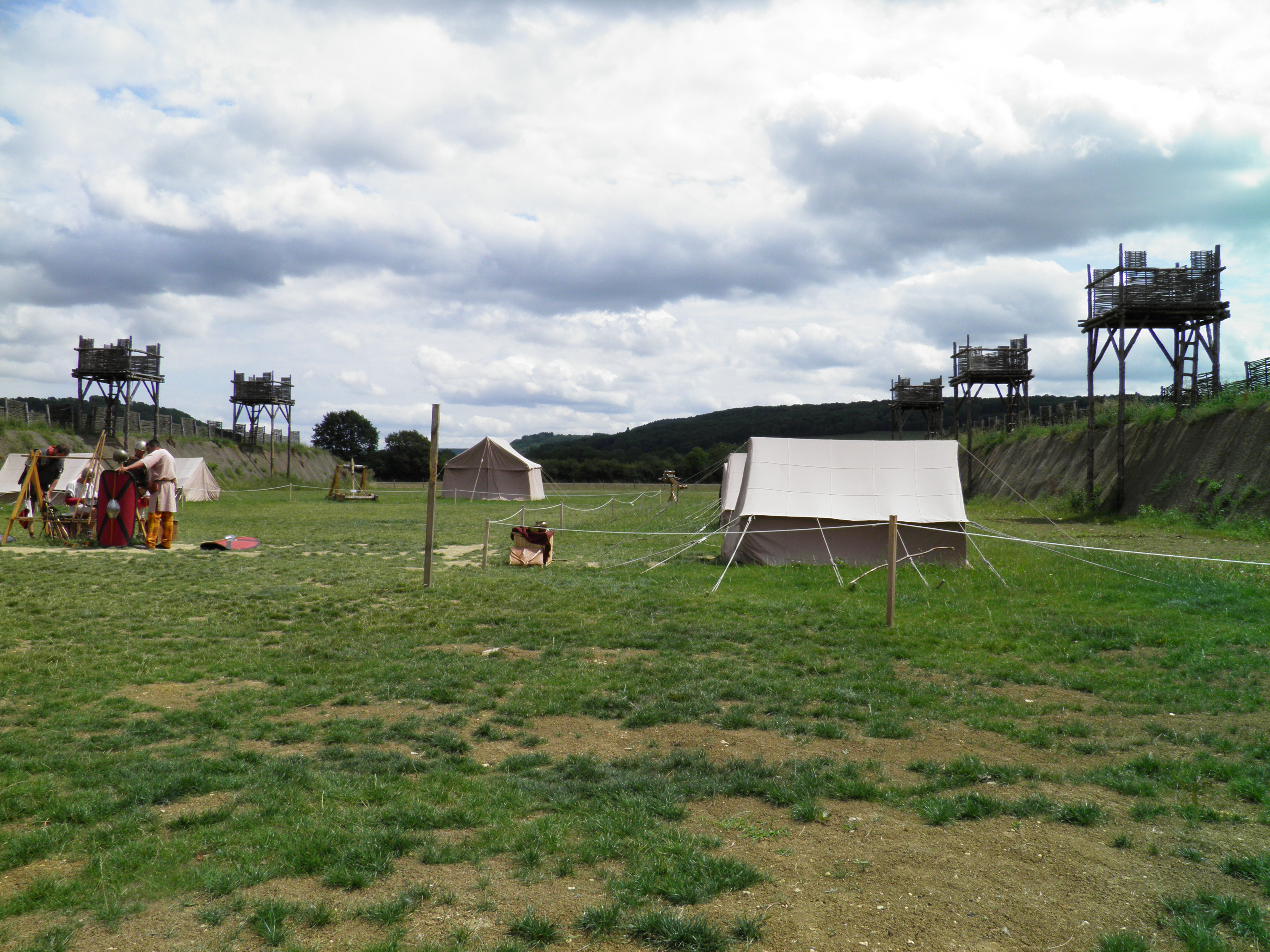 The space between two fortification lines with a reconstitution of a camp, Alesia